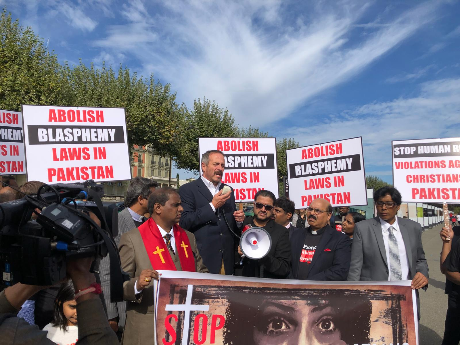 GHRD Protest- 22nd sept 2018Geneva